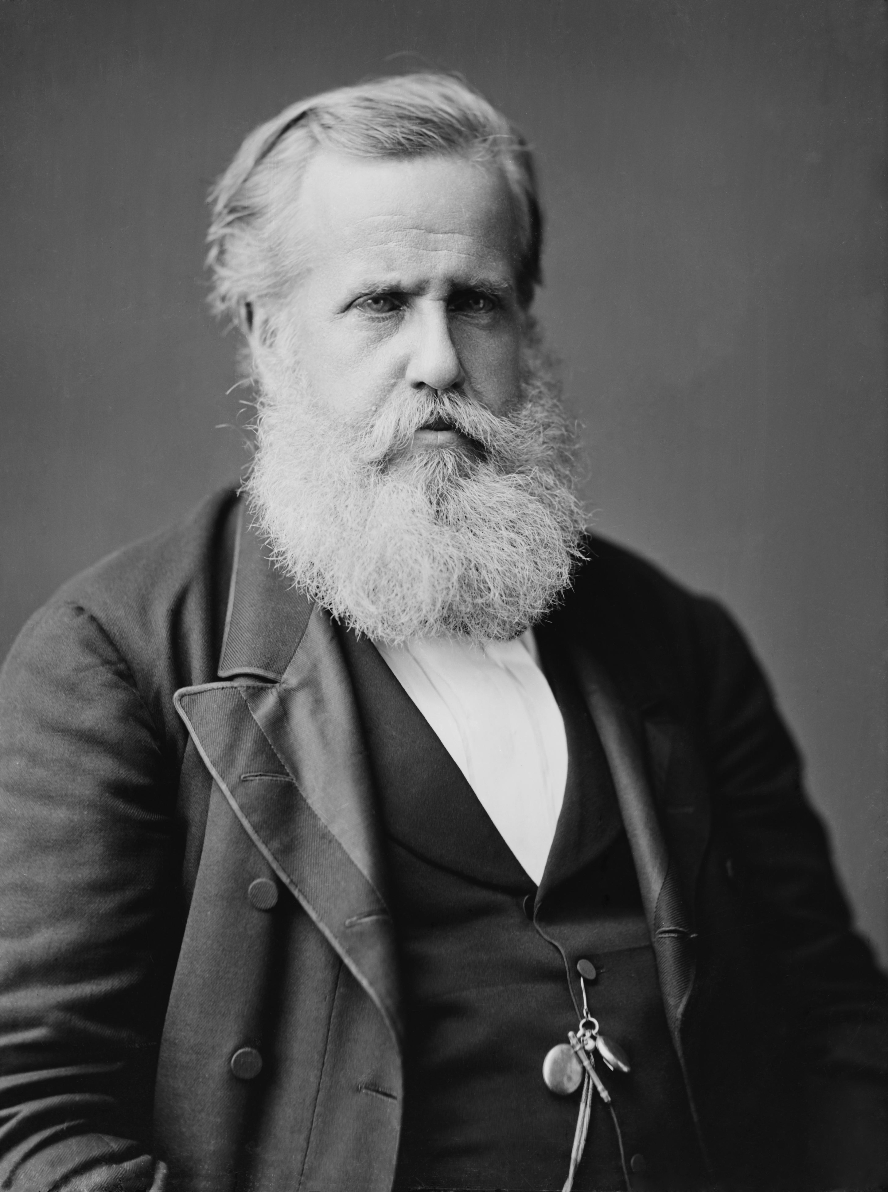 Pedro II of Brazil. Library of Congress description: "Pedro, D. of Brazil (1876)".